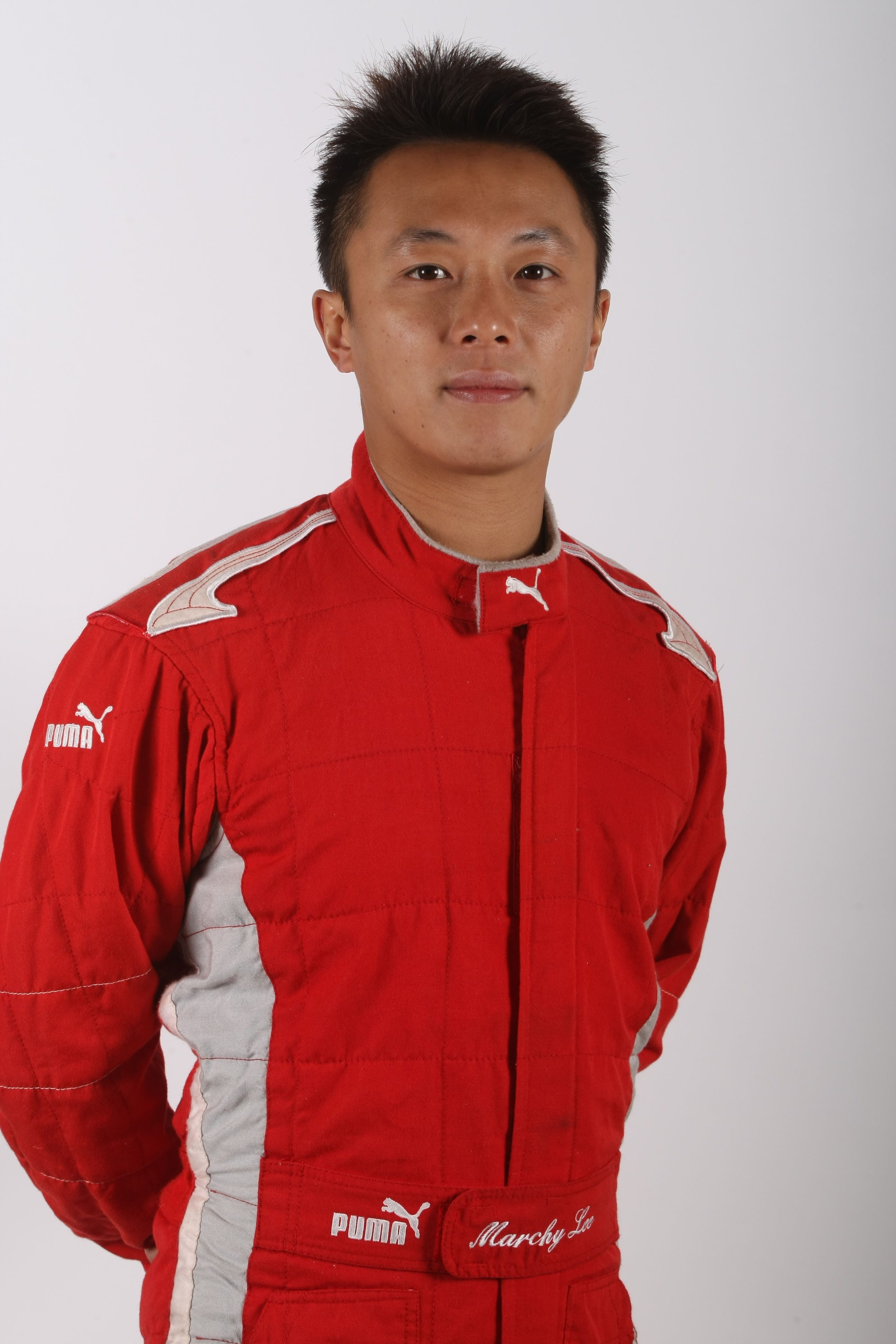 Profile Photo of Marchy Lee under the sponsorship of PUMA